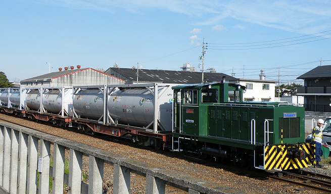 Switcher type DB25(No.251) of Mitsubishi chemical corporation at Shiohama Sta., Japan.